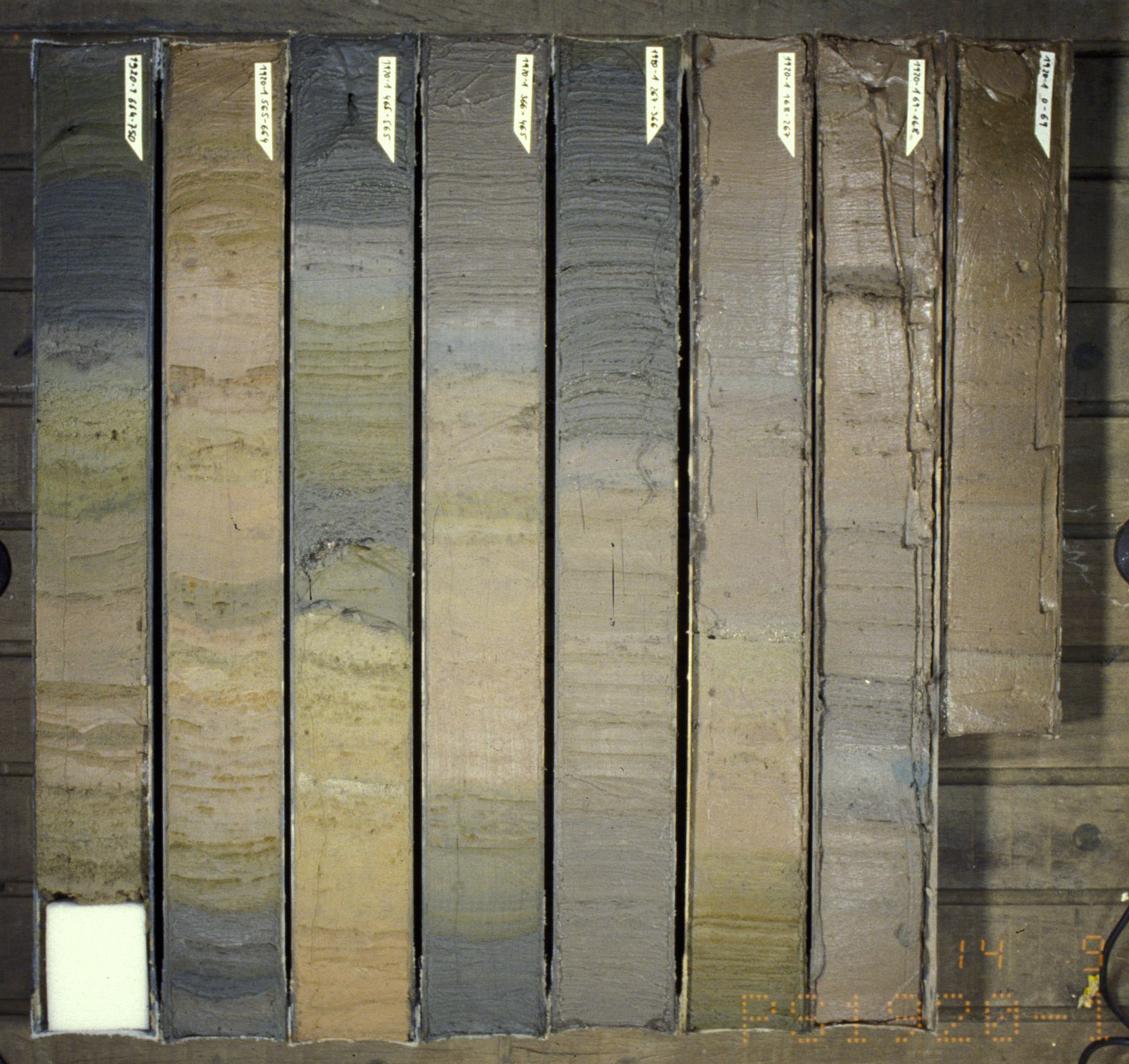 Palaeoclimate archives: Sediment core with color variations reflecting climatic change; sampled from the Greenland continental margin